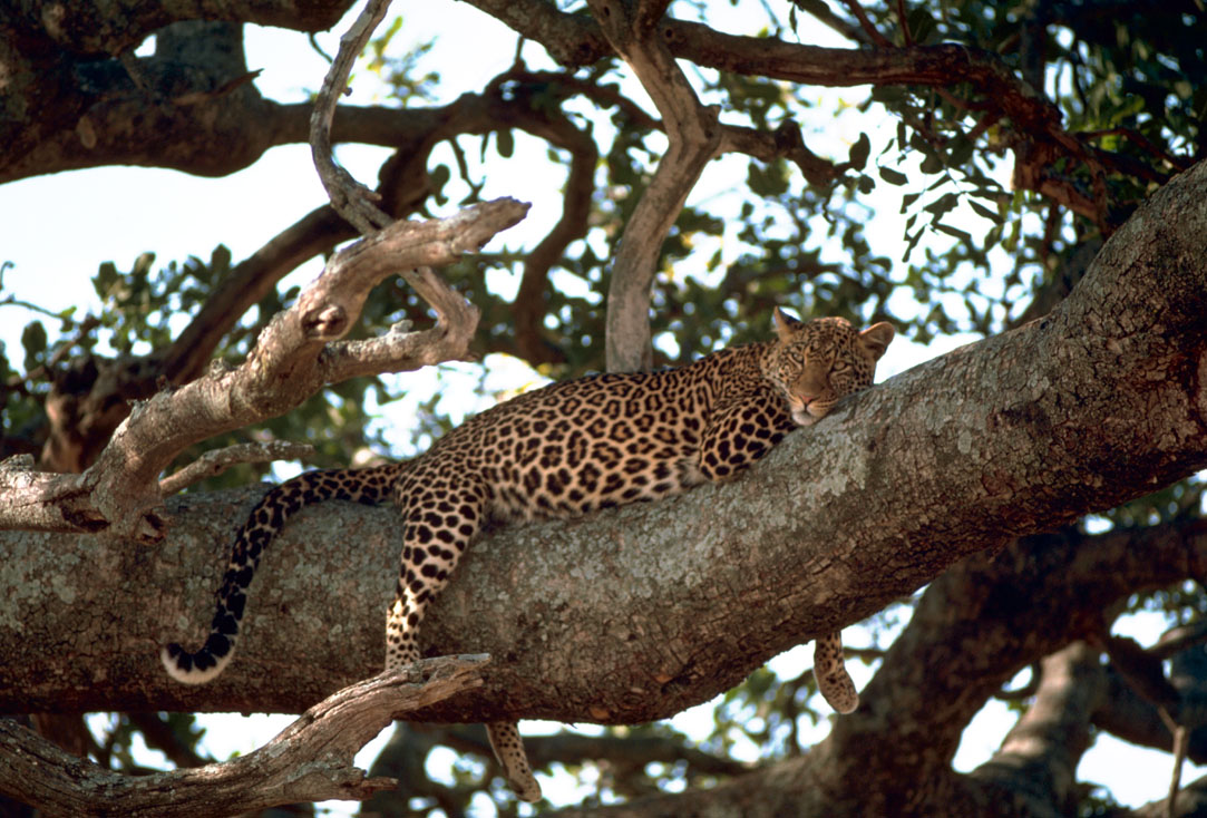 Leopard relaxing on a tree.